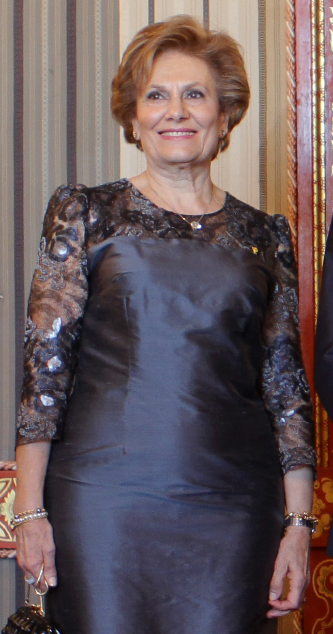 State Visit of President Enrique Peña Nieto (Mexico) to Portugal (5 June 2014). The Presidents of the two countries and their respective wives pose for a group photograph. Left to right: First Lady of Portugal Maria Cavaco Silva, President of Mexico Enrique Peña Nieto, President of Portugal Aníbal Cavaco Silva, First Lady of Mexico Angélica Rivera.